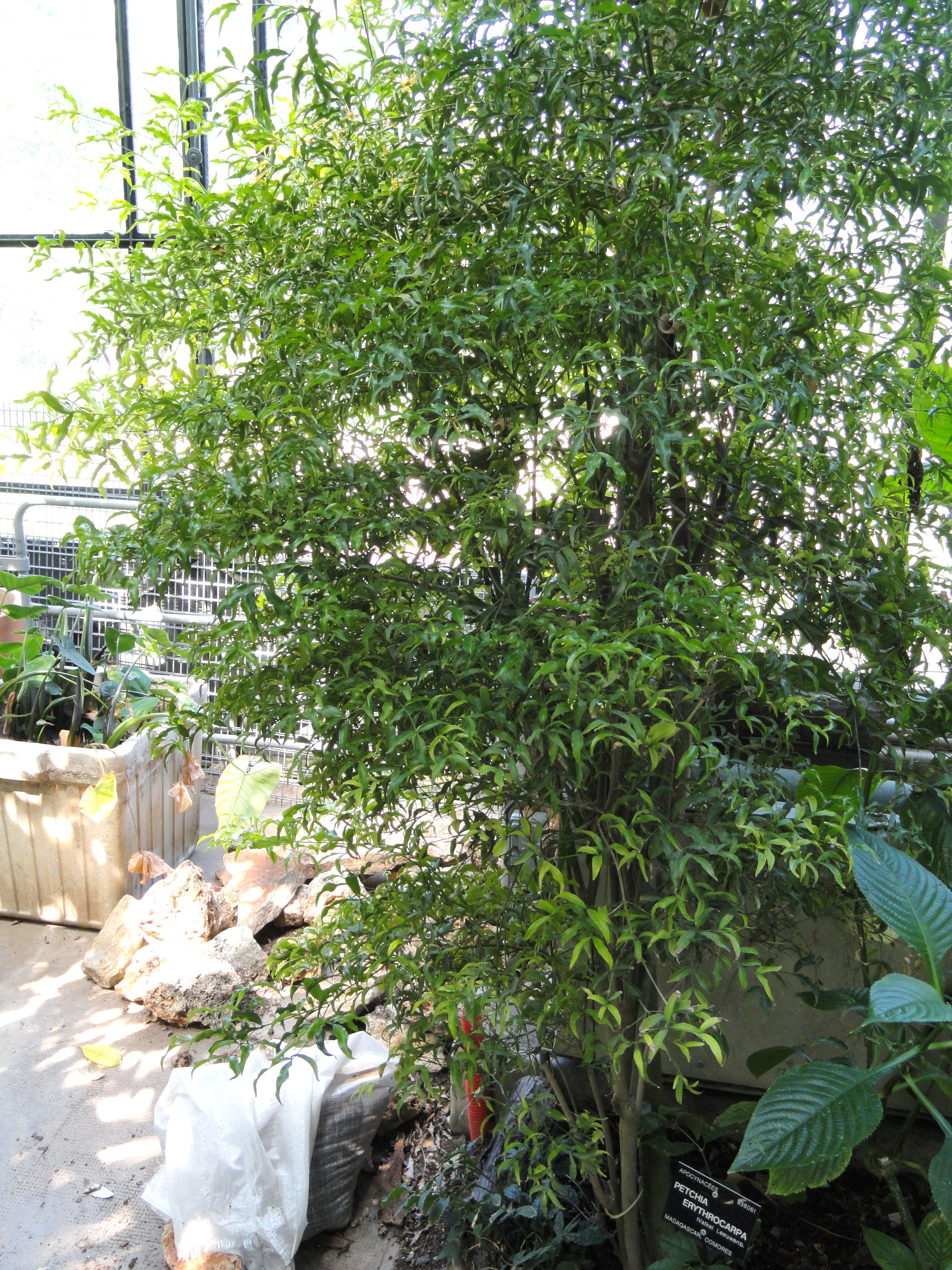 Petchia erythrocarpa specimen in the Jardin Botanique de Lyon, Parc de la Tête d'Or, Lyon, France.